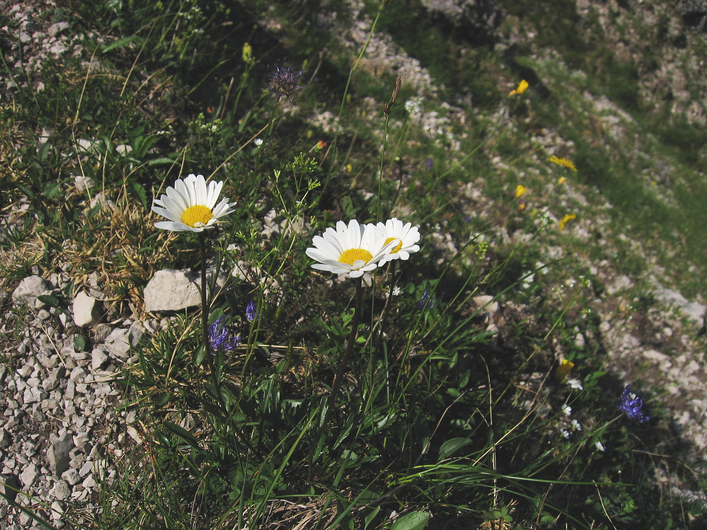 Leucanthemum atratum, Hinterstoder, Upper Austria, Austria